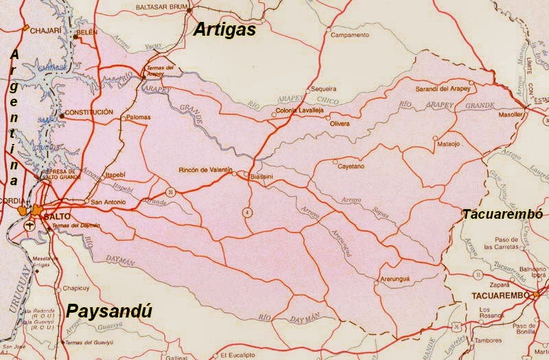 Map of the Uruguayan Department of Salto, in South America. I, the author of this work, release it into public domain.